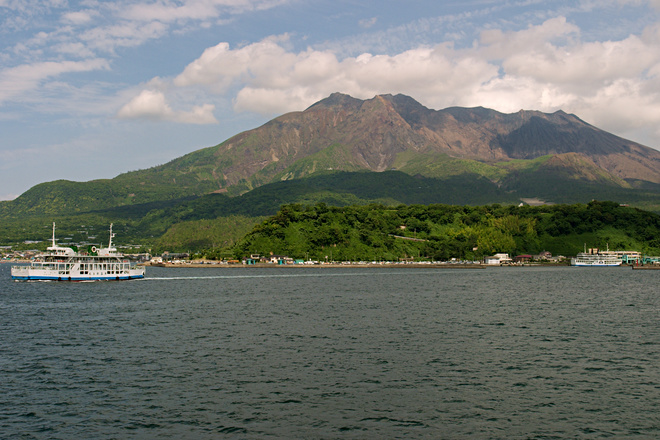 Sakurajima Volcano. Sakurajima as seen from Kagoshima, Kagoshima.